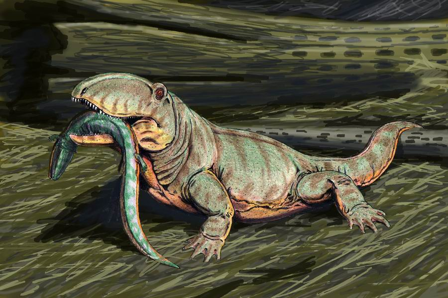 Ophiacodon (not uniformis sp, but oh well) (ДиБгд).